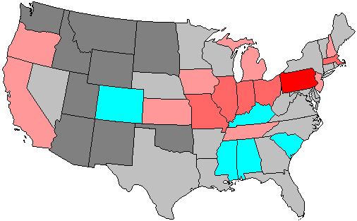 Summary of party change of U.S. house seats in the 1876 House election. Stripes indicate a tie between the gains of two or more parties. Legend: 6+ Democratic seat pickup 3-5 Democratic seat pickup 1-2 Democratic seat pickup 1-2 Republican seat pickup 3-5 Republican seat pickup 6+ Republican seat pickup 1-2 Independent seat pickup 3-5 Readjuster seat pickup 1-2 Greenback seat pickup 3-5 Greenback seat pickup Note: years ending in 2 may have inconsistent results due to redistricting.